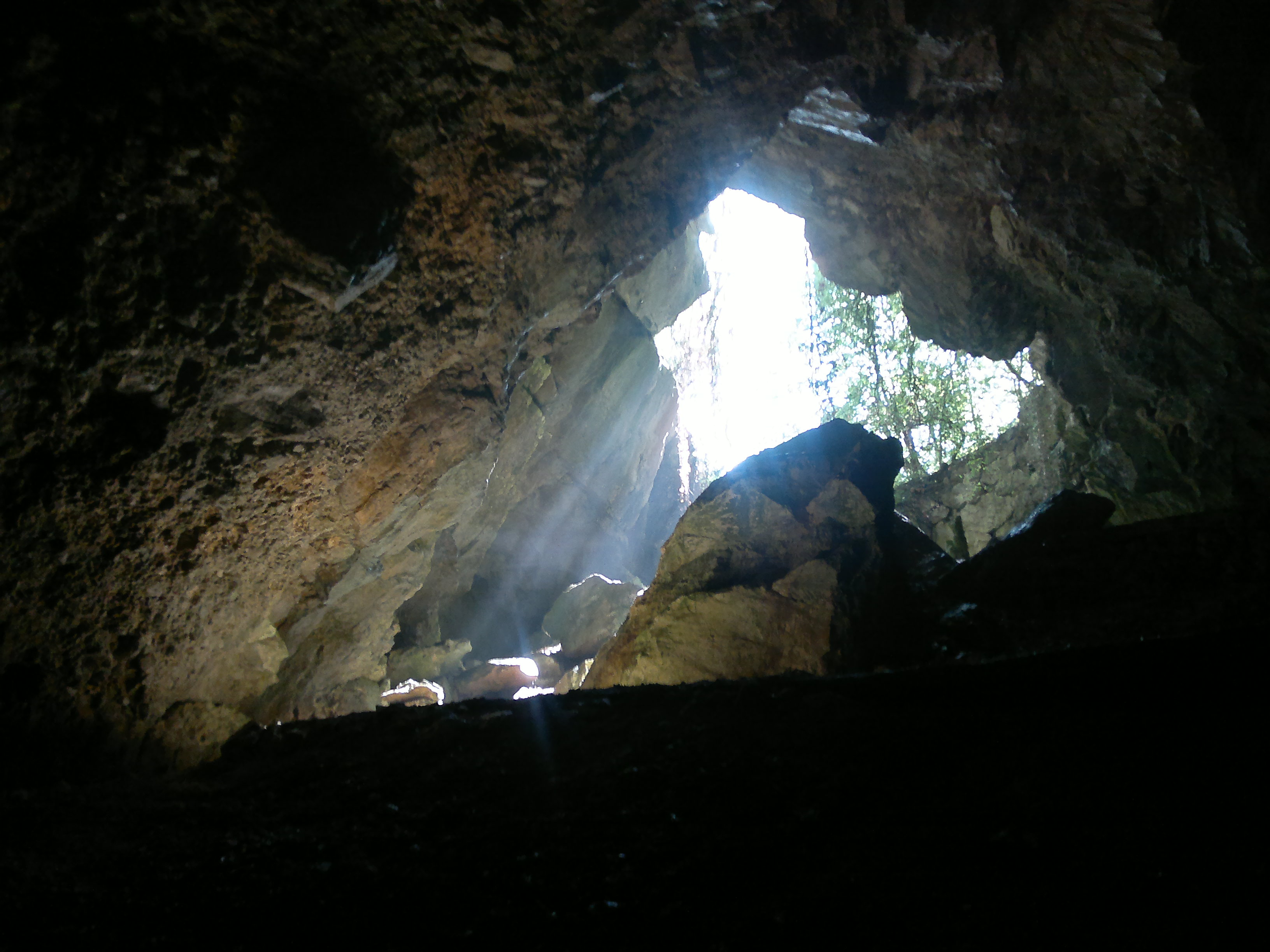 View from Resava cave trough one of its minor exits